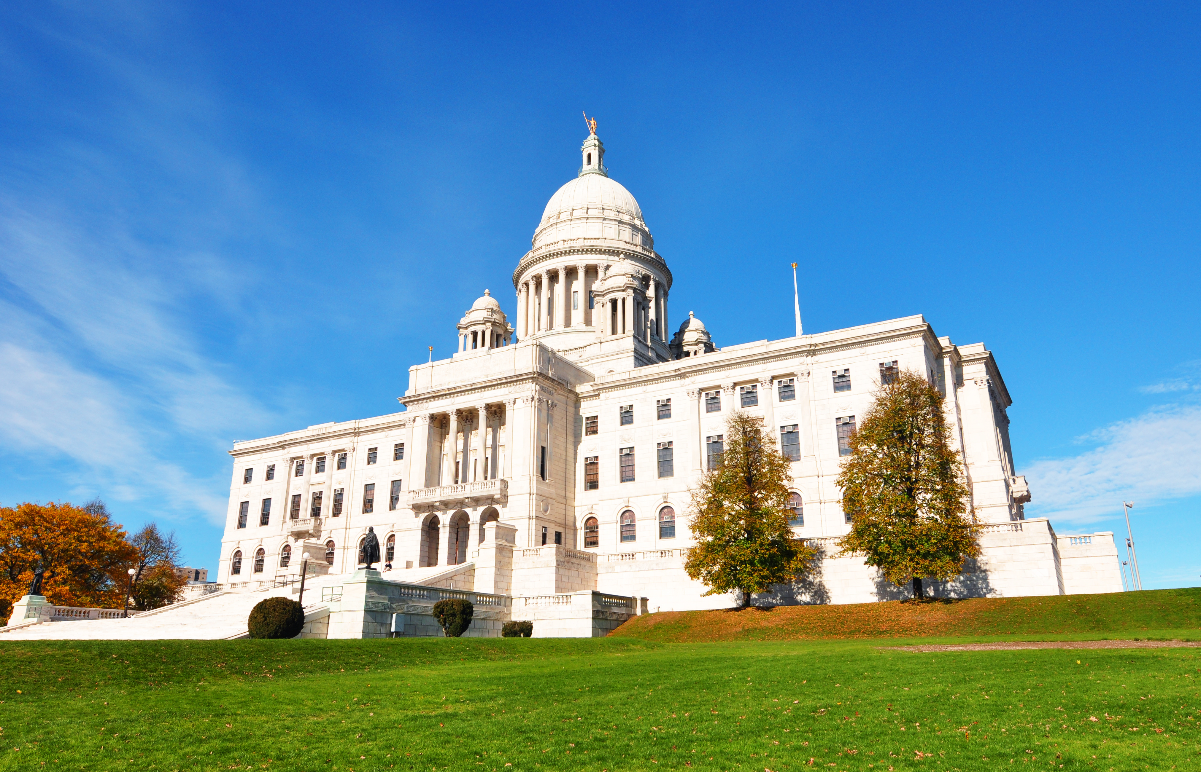 Rhode Island State House 2009 Providence